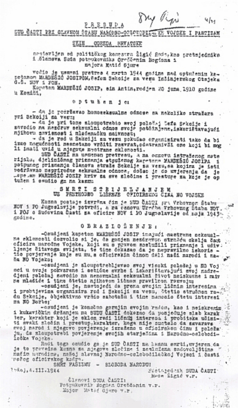 Verdict of Josip Mardešić to death by firing squad because of practising homosexuality